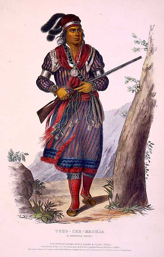 TITLE: Tuko-See-Mathla, a Seminole chief / drawn, printed & coloured at the Lithographic & Print Colouring Establishment, Phila. CALL NUMBER: PGA - McKenney & Hall (B size) [P&P] REPRODUCTION NUMBER: LC-USZC4-2904 (color film copy transparency) SUMMARY: Tuko-See-Mathla, full-length portrait, standing, facing right, carrying rifle. MEDIUM: 1 print : lithograph, color. CREATED/PUBLISHED: Phila. : published by Daniel Rice & James G. Clark, 1843. CREATOR: McKenney & Hall.